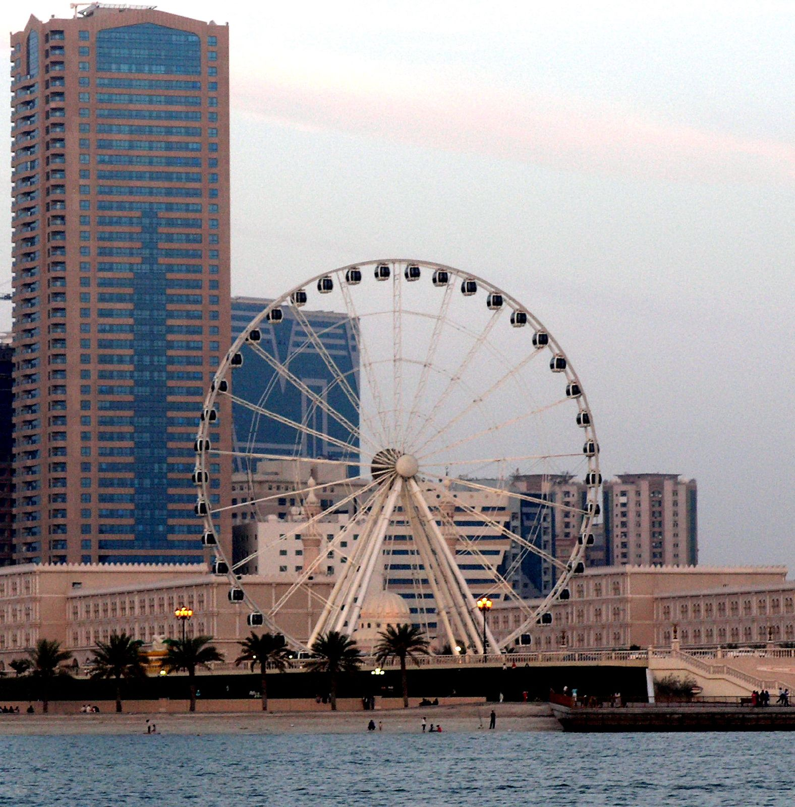 The beach of SharjahSharjah eyes1